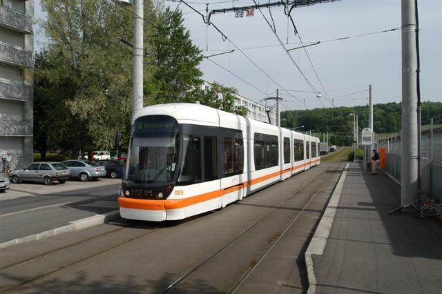 Cityrunner of the city of Linz